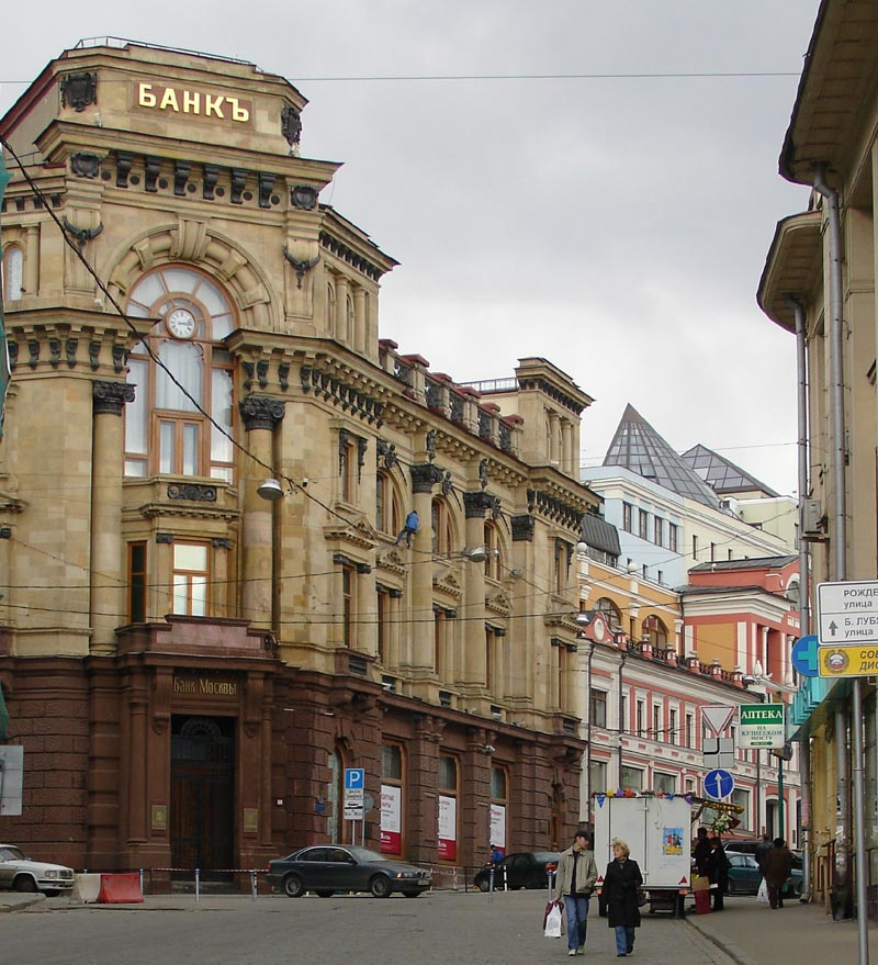 15, Street, Moscow by Semyon Eybuschitz